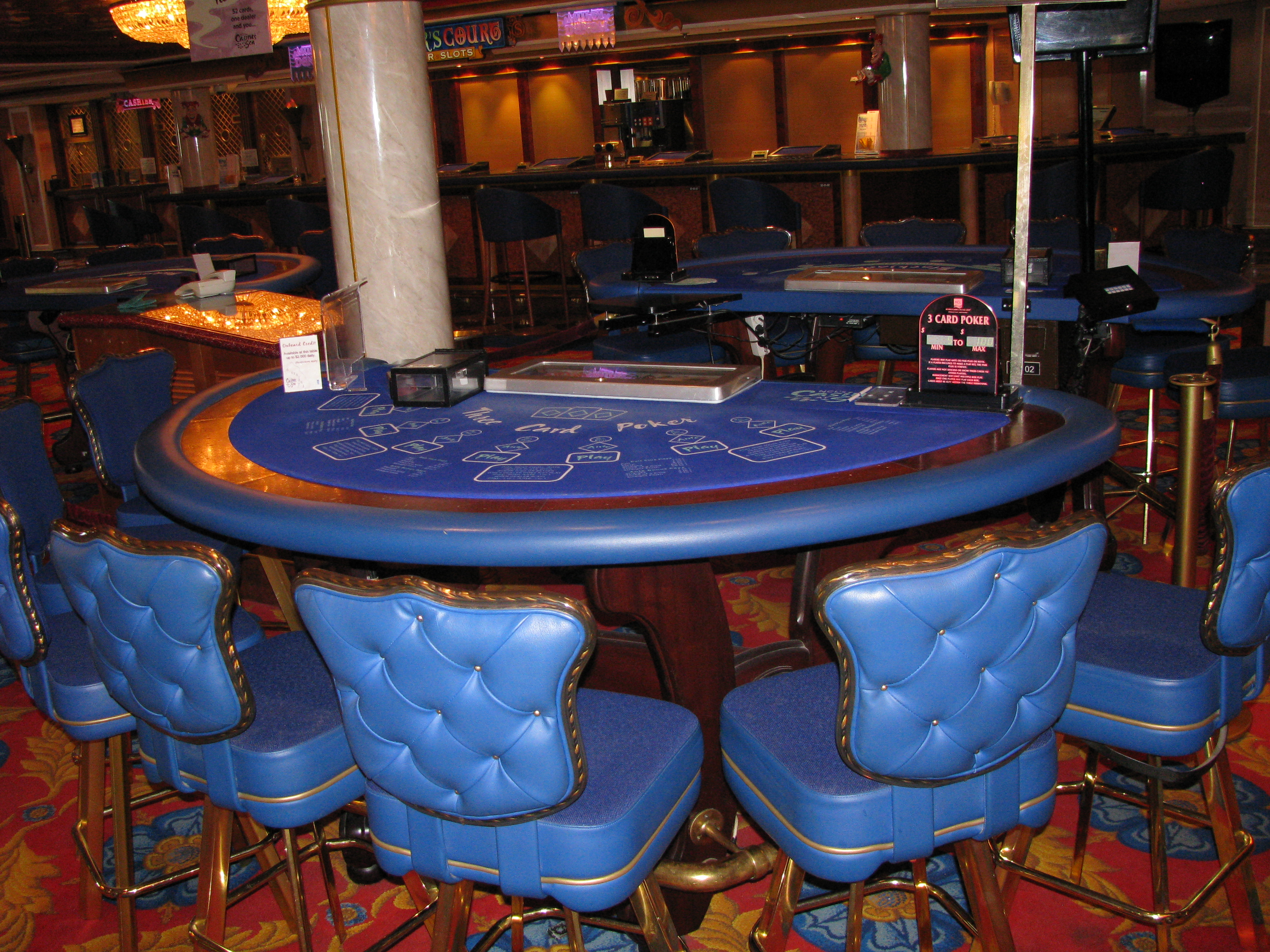 Three card poker table located in the Dawn Club Casino on deck six on the Norwegian Dawn cruise ship.